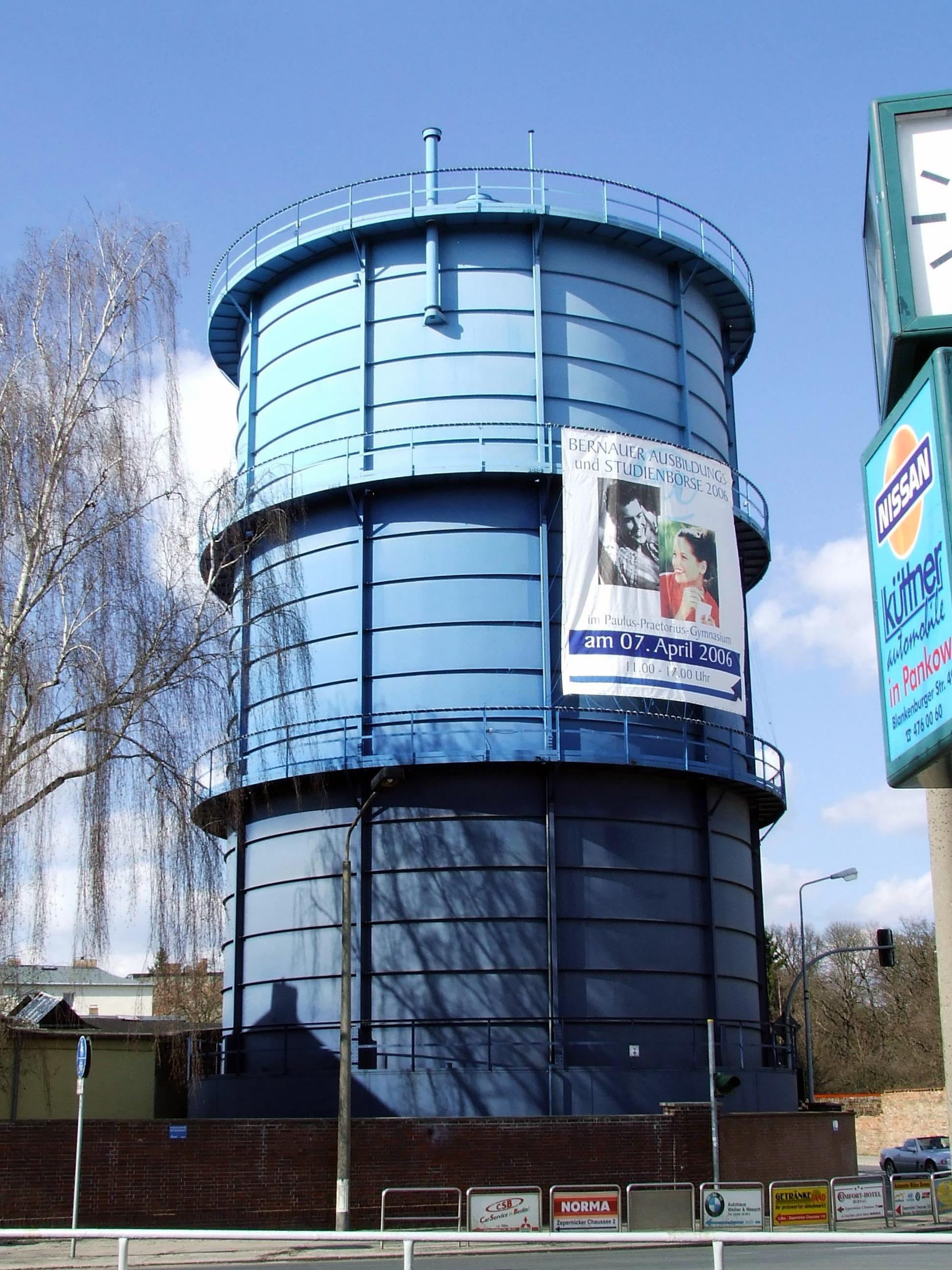 Gasometer in Bernau bei Berlin